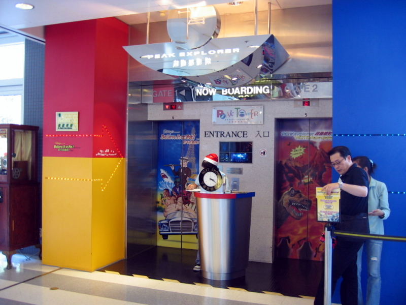 The Peak Attraction: Peak Explorer